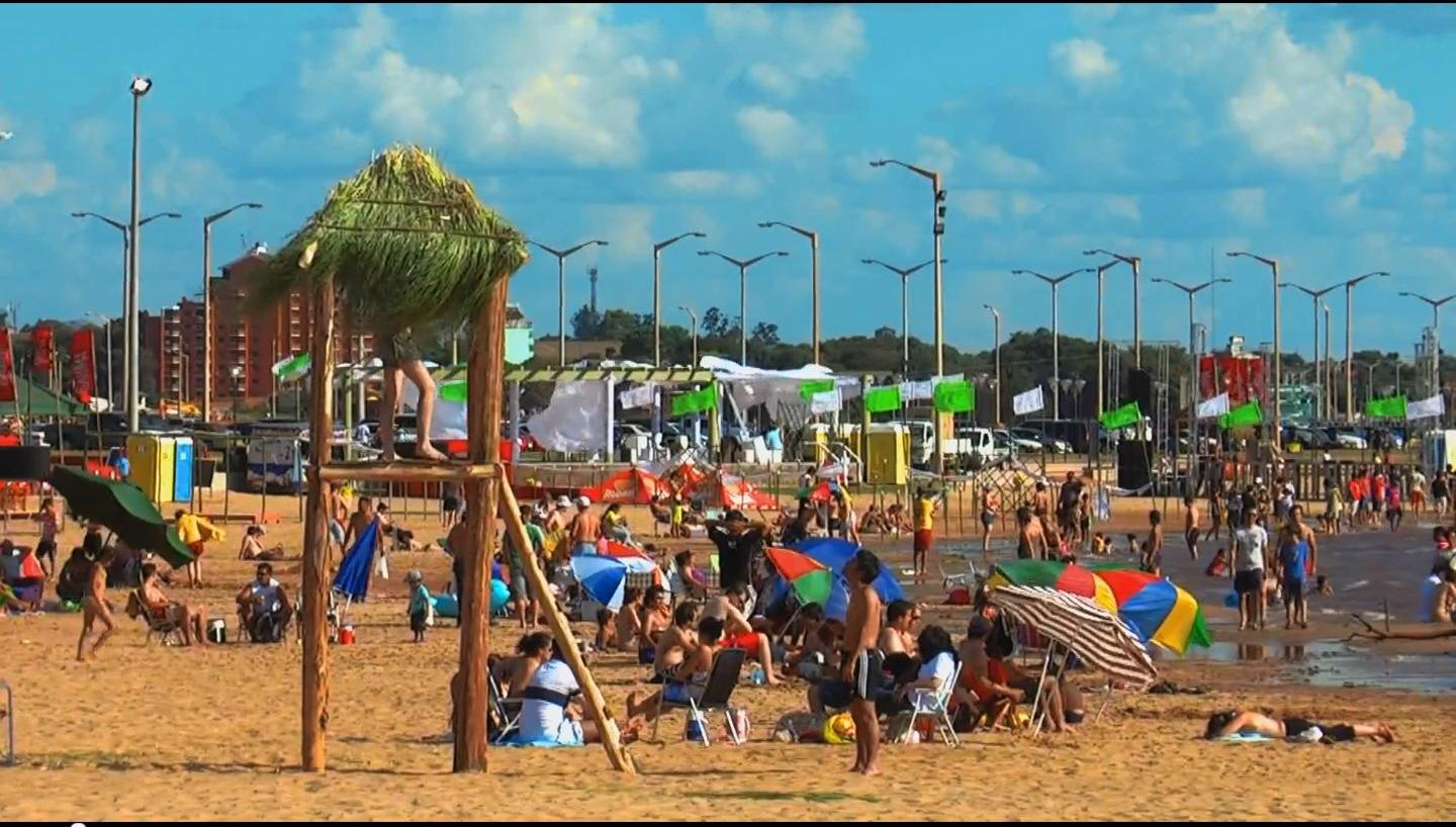 new beach